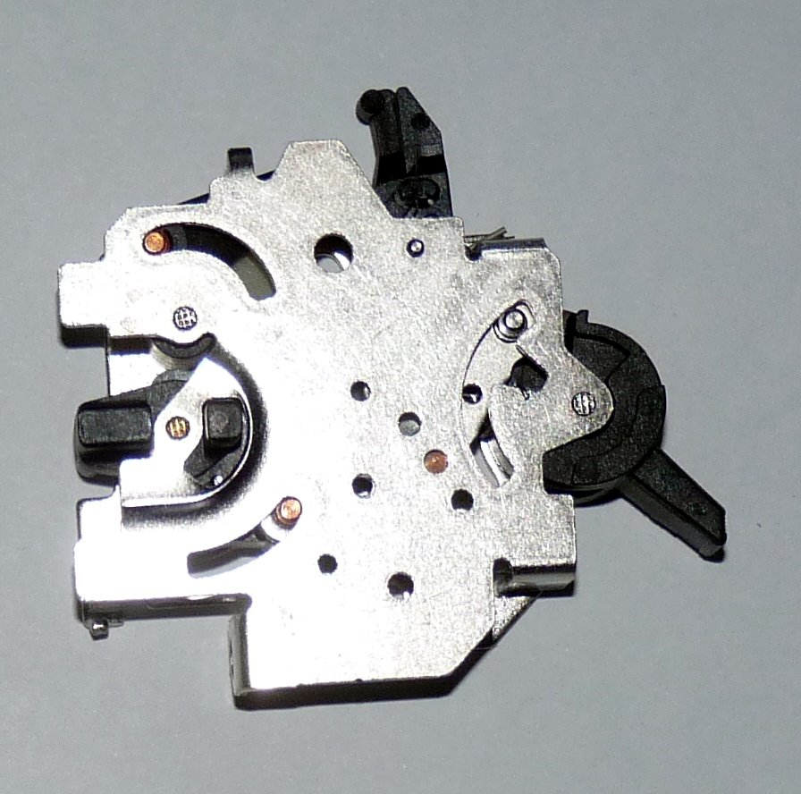 Actuator mechanism from RCD.